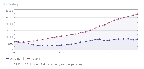 Comparison of GDP per capita corrected by purchasing power parity between Ukraine and Poland in years 1990-2017